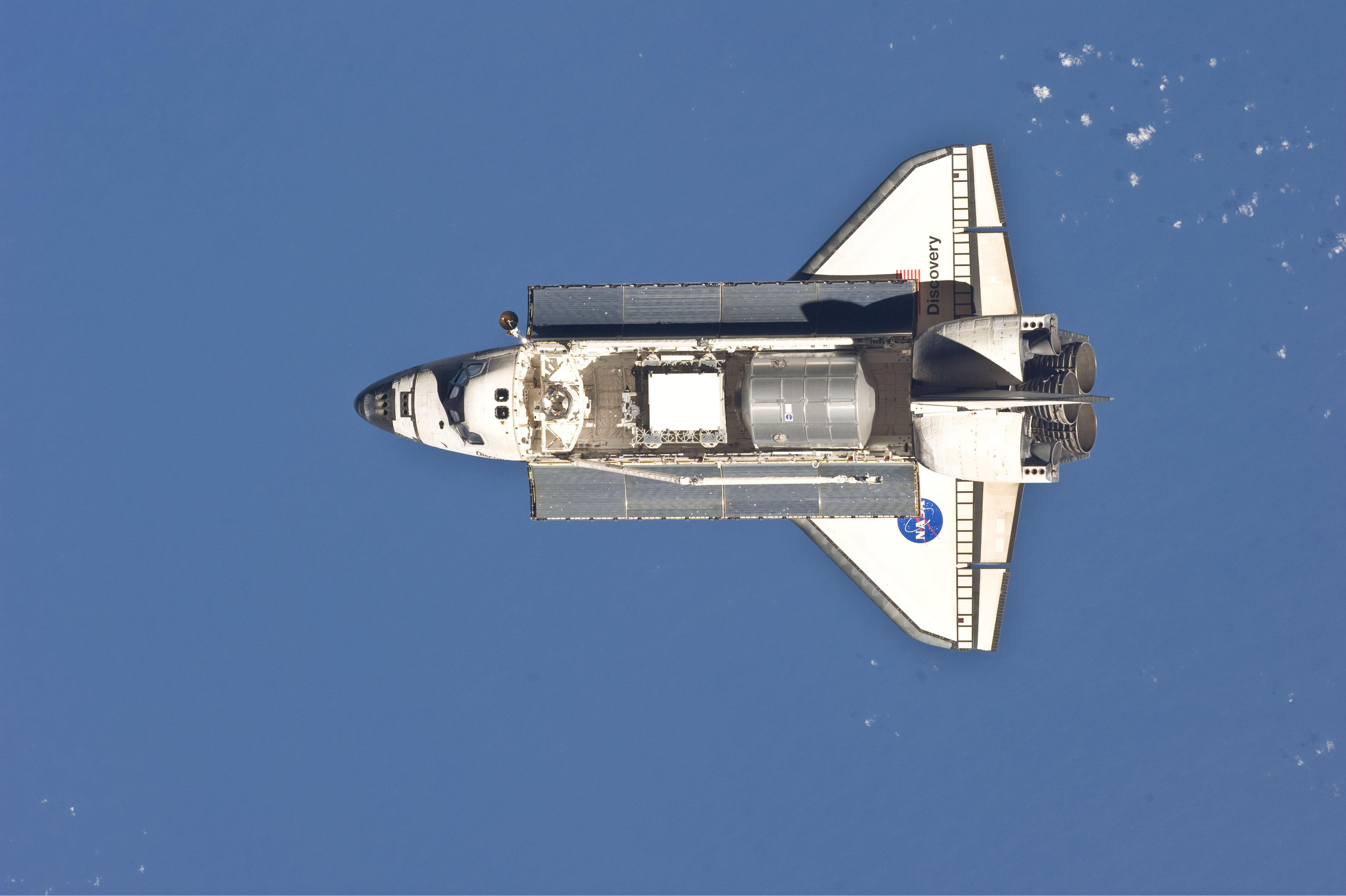 Backdropped by a blue and white part of Earth, space shuttle Discovery is featured in this image photographed by an Expedition 26 crew member as the shuttle approaches the International Space Station during STS-133 rendezvous and docking operations. Docking occurred at 2:14 p.m.